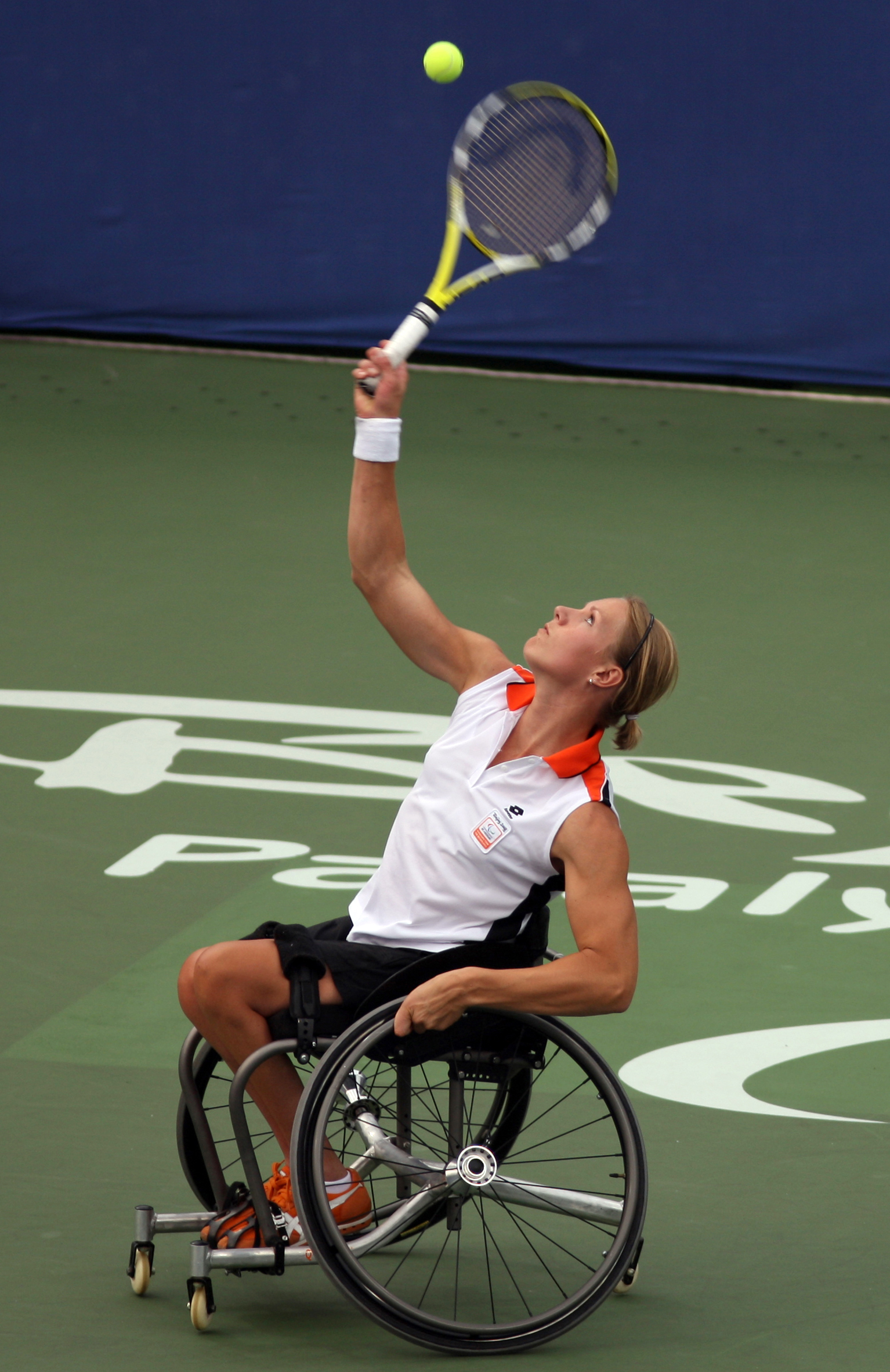 Netherlands tennis player Esther Vergeer serves at the Beijing 2008 Paralympic Games